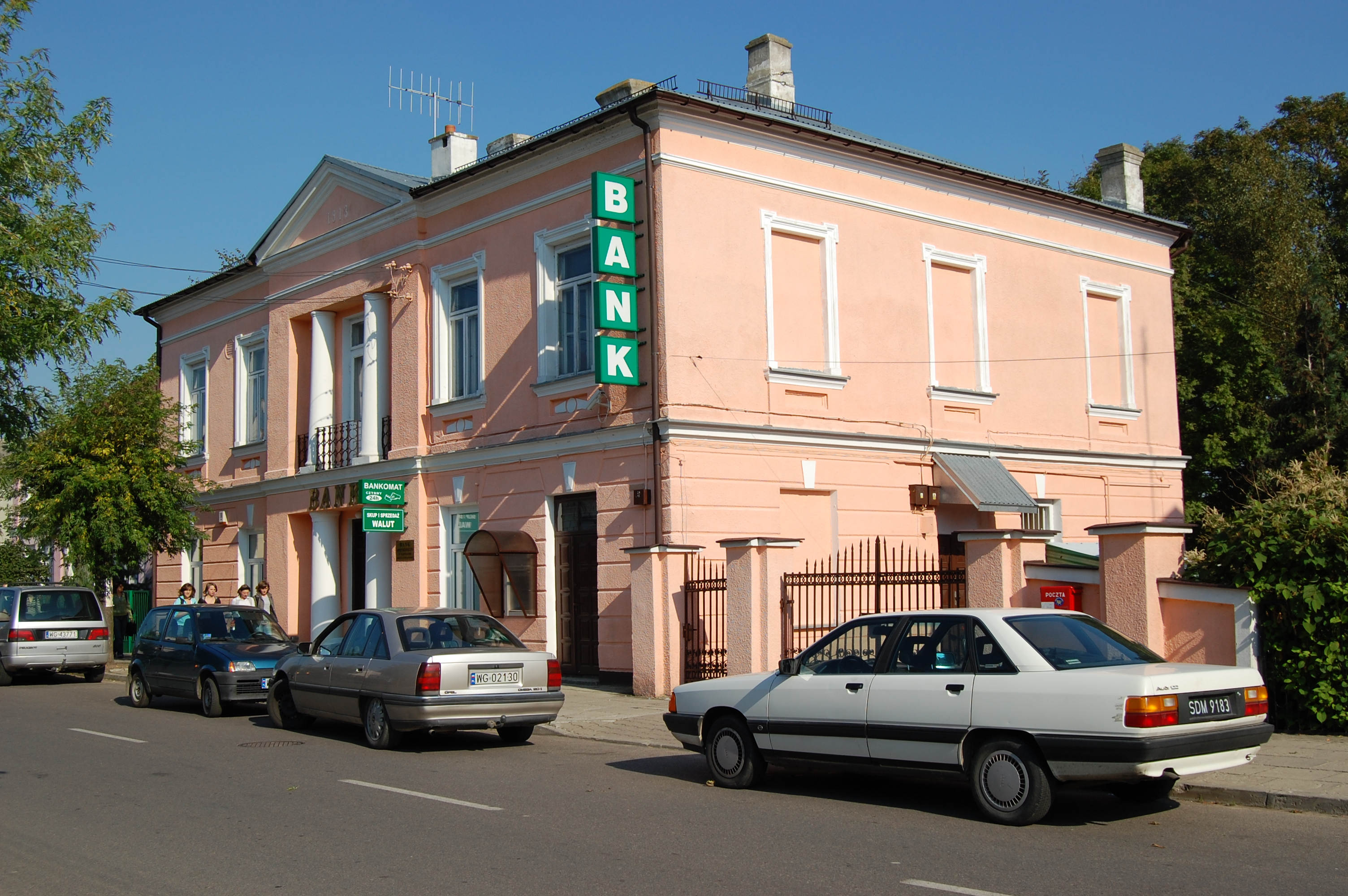 Bank in Żelechów, Poland.